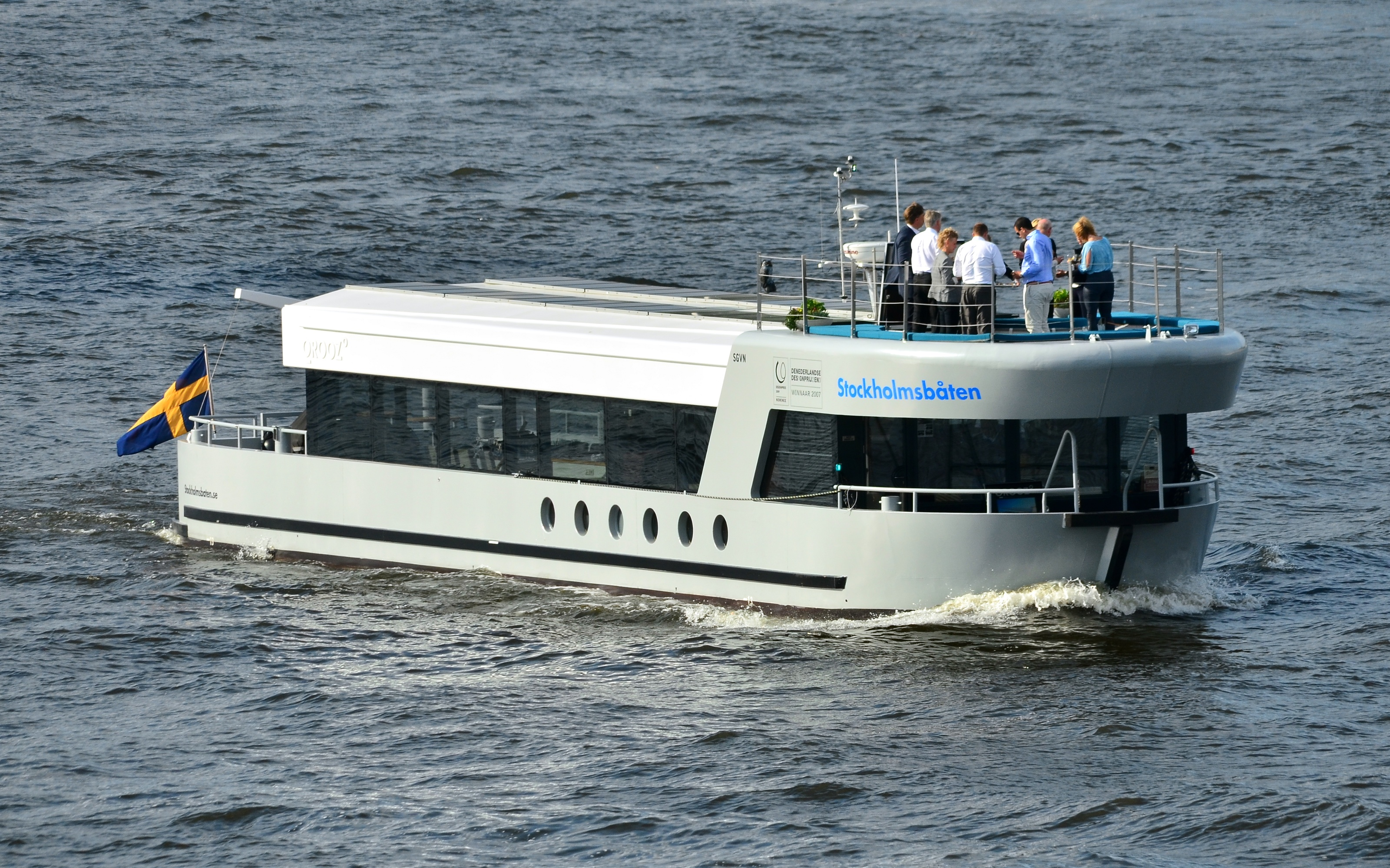 The charter boat Qrooz 01 on Stockholms ström, Stockholm, Sweden.